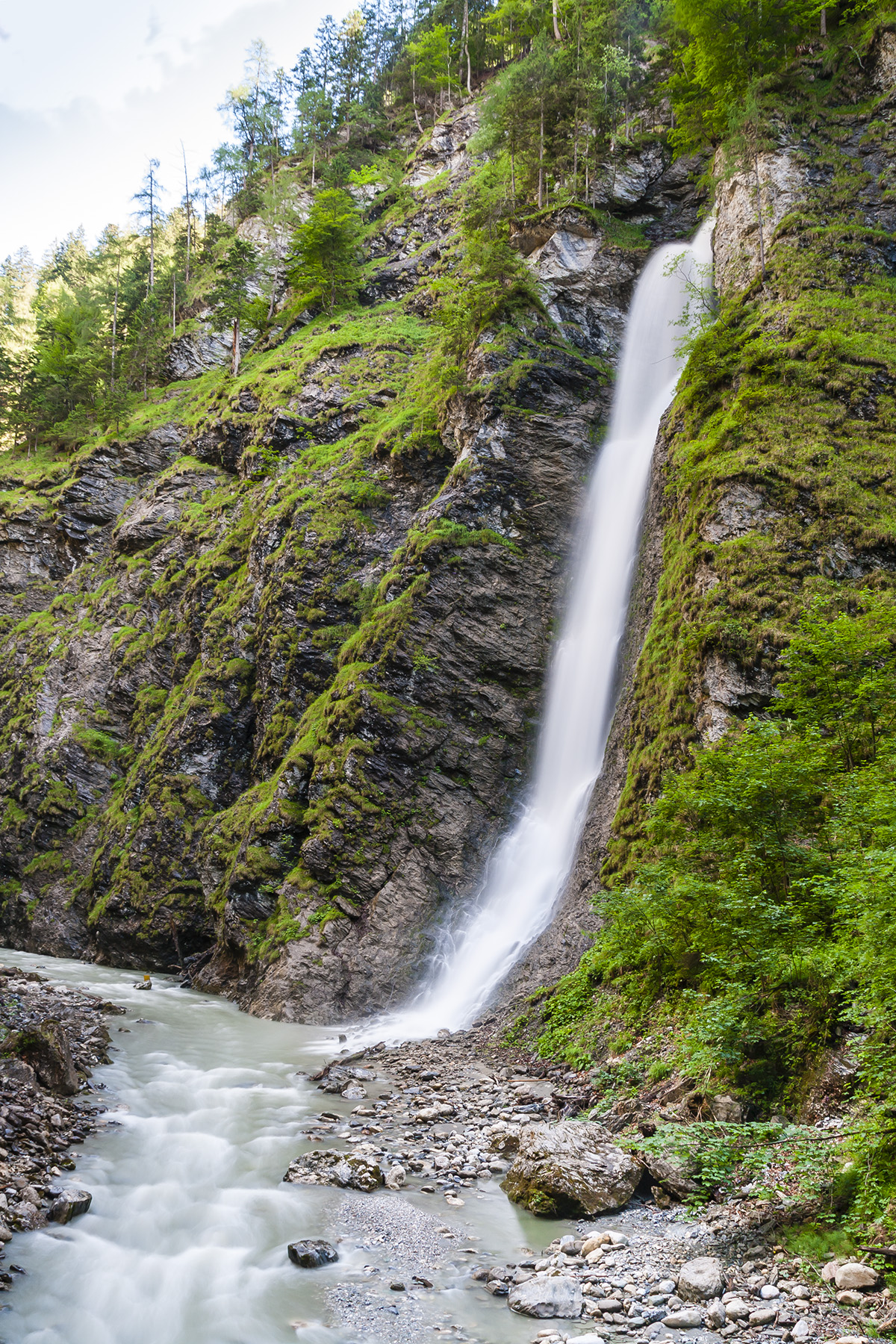 Liechtensteinklamm / waterfall at the final of the Klamm